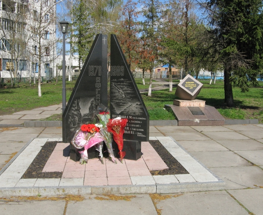 Monument wars Afghans Baryshevka.